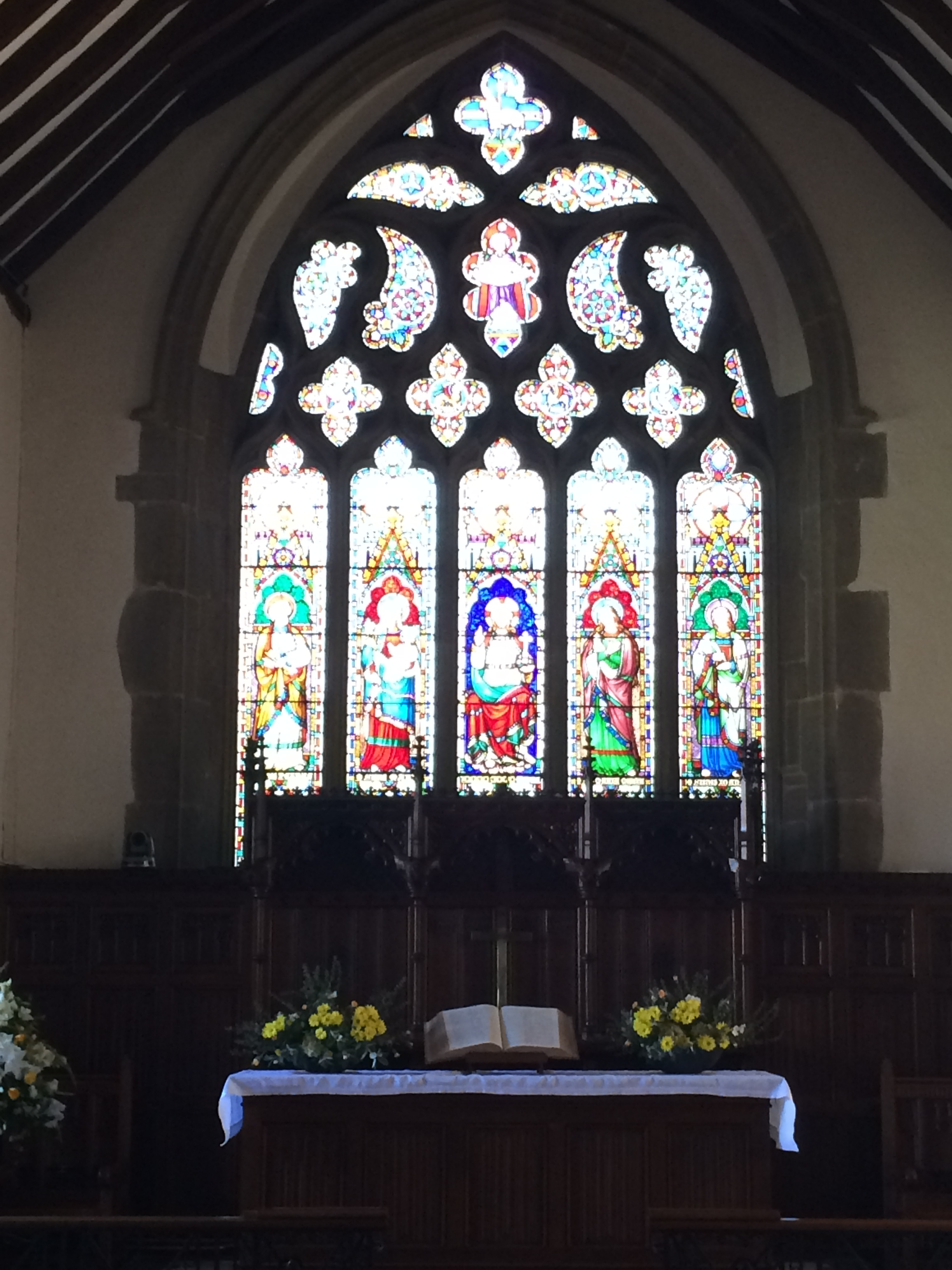 This window shows an example of a particular style of English Gothic: Decorated